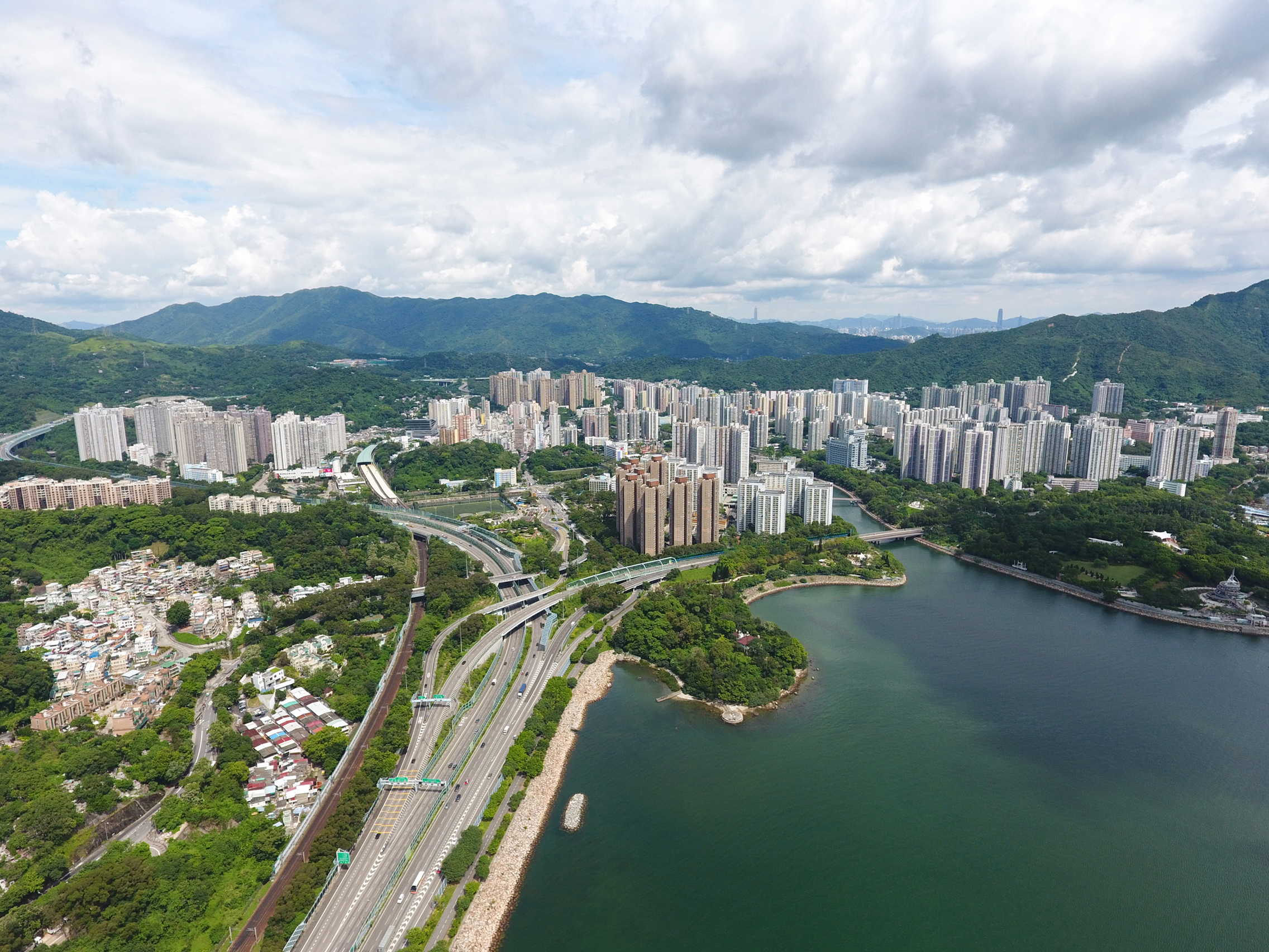 Tai Po New Town overview